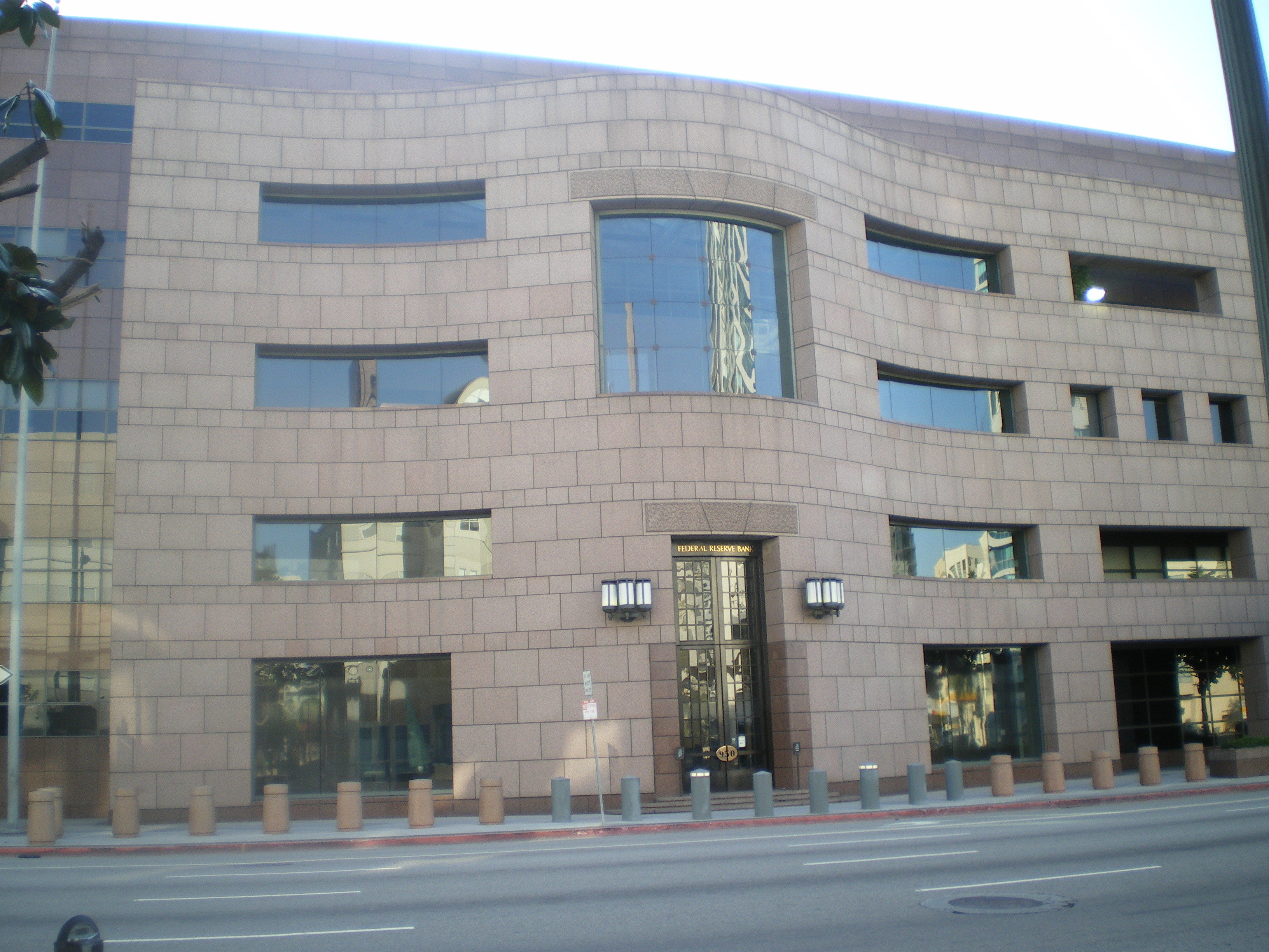 Federal Reserve Bank, Olympic & Grand, Los Angeles, CA.